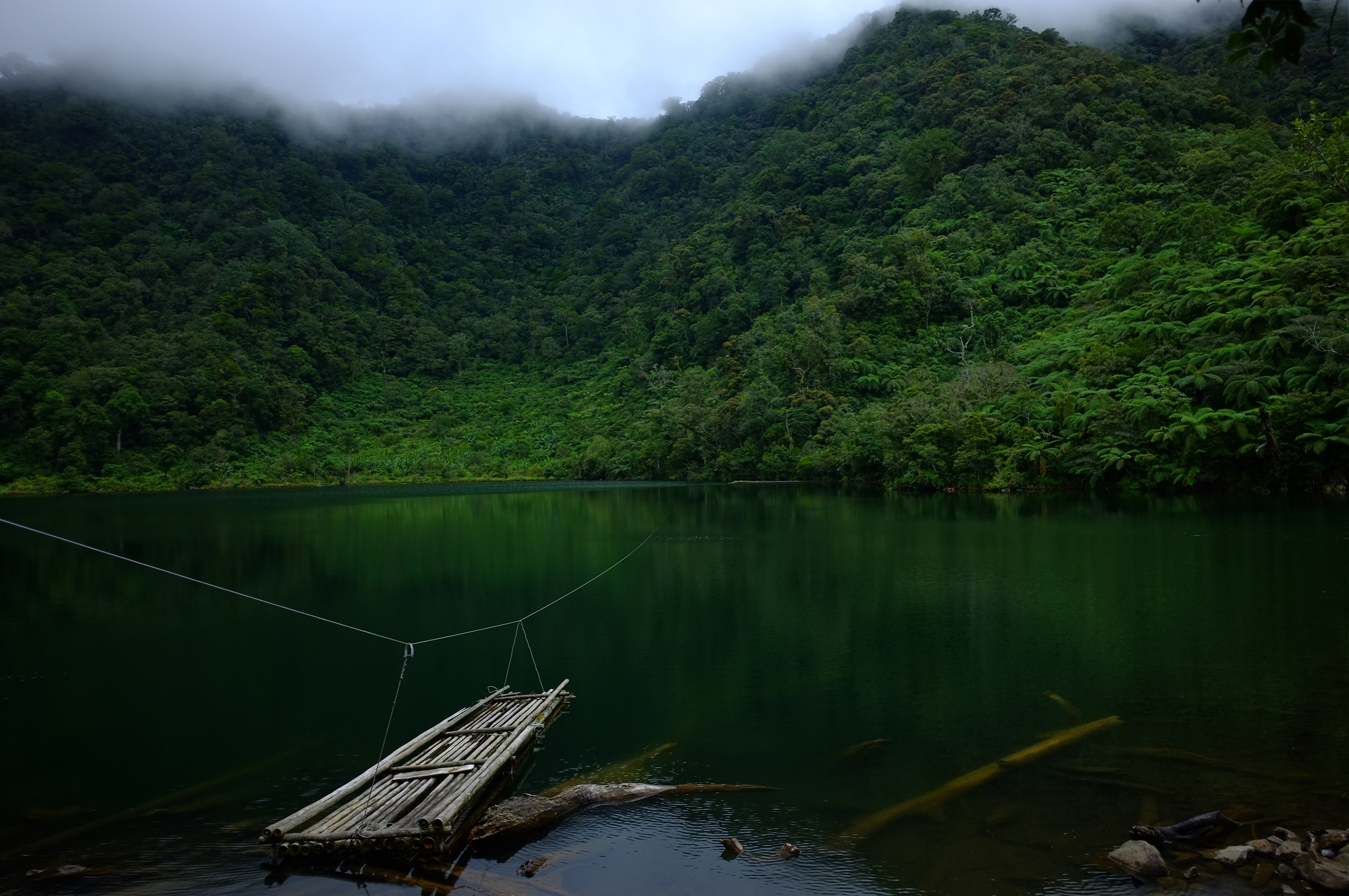 Lake Duminagat in Don Victoriano, Misamis Occidental is a part of Mount Malindang